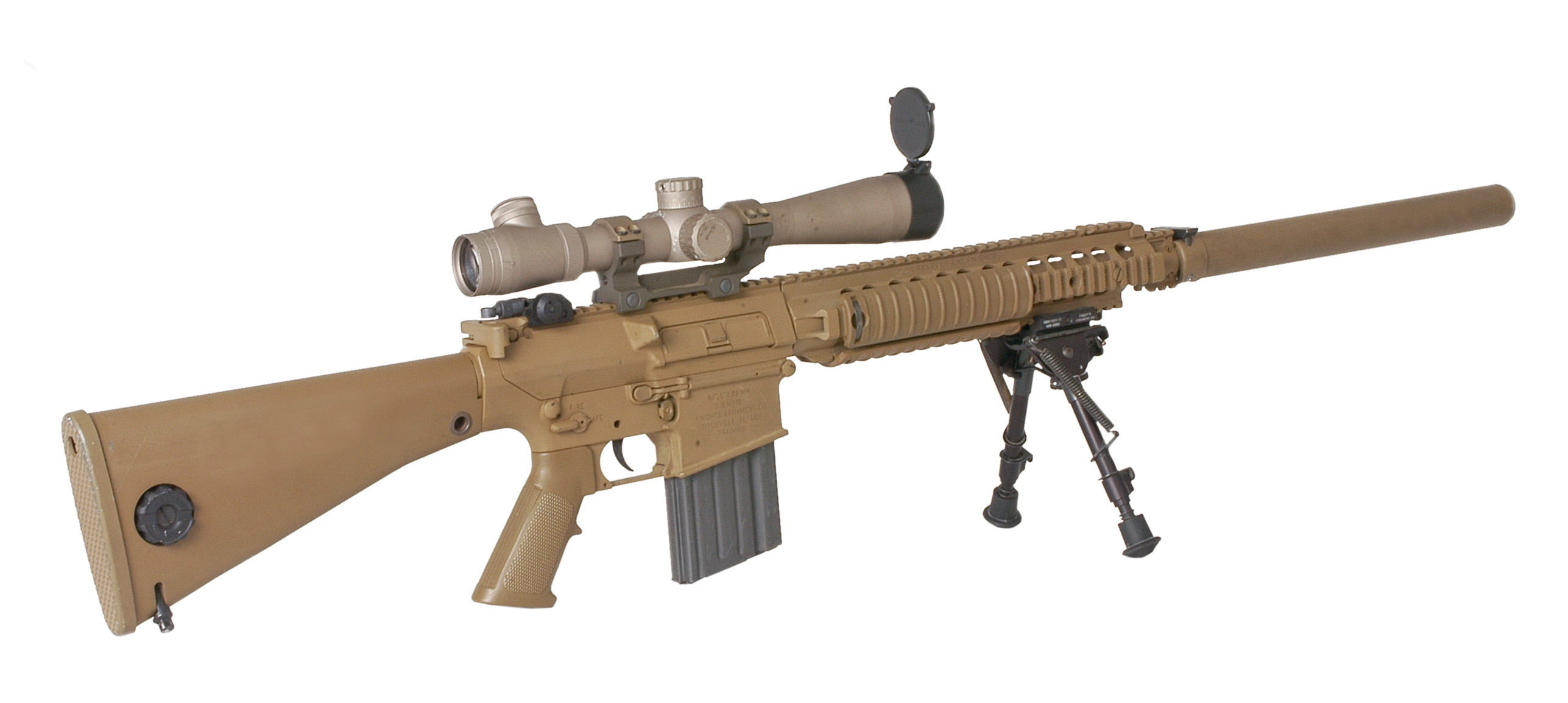 The M110 Semi-Automatic Sniper System (SASS) is the U.S. Army’s latest medium caliber sniper rifle that supplements the sniper’s role to support combat operations with greater firepower and versatility